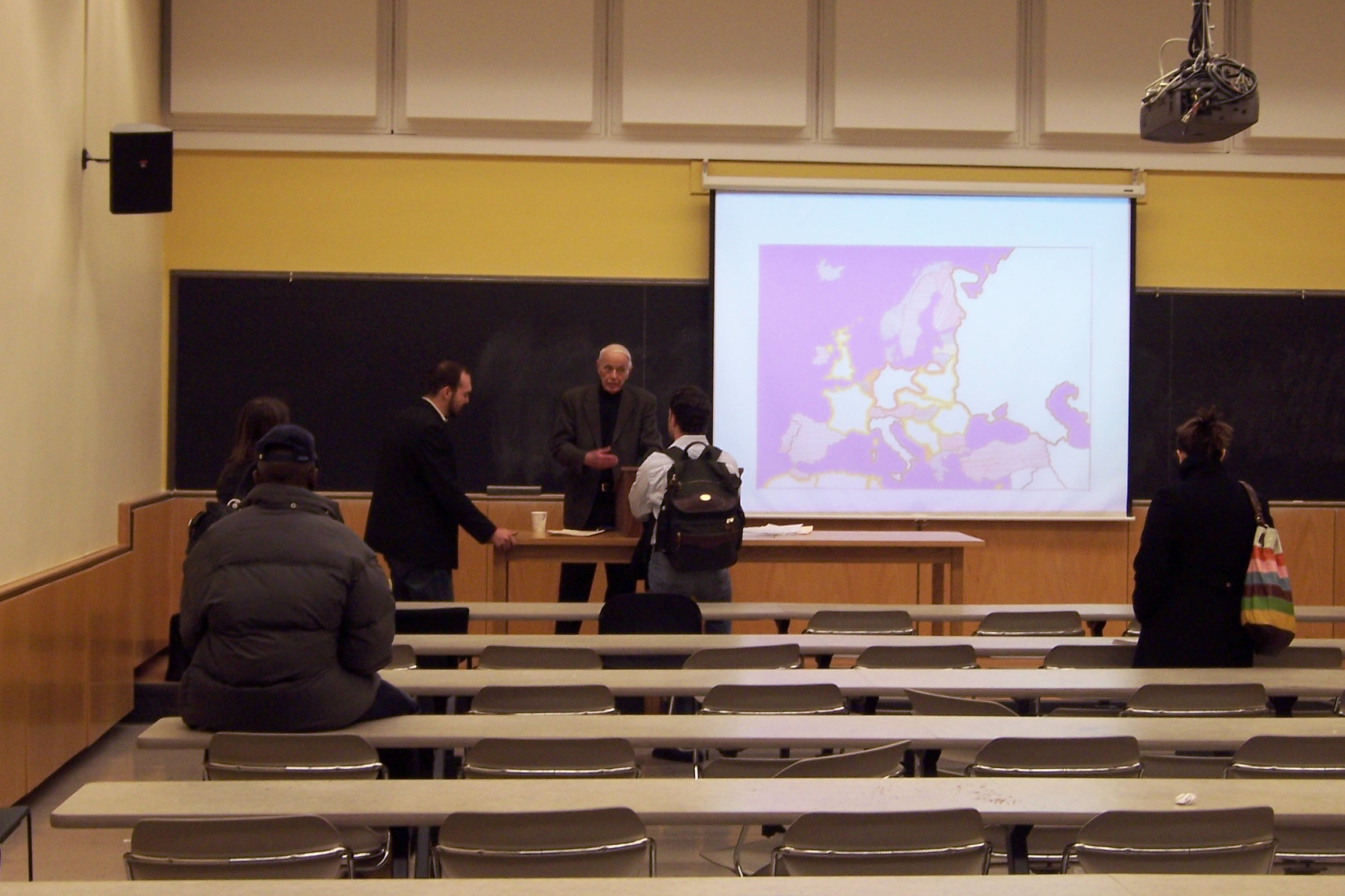 Warner R. Schilling, James T. Shotwell Professor of International Relations Emeritus at Columbia University, talking to students after giving a lecture in his Weapons, Strategy, and War course.